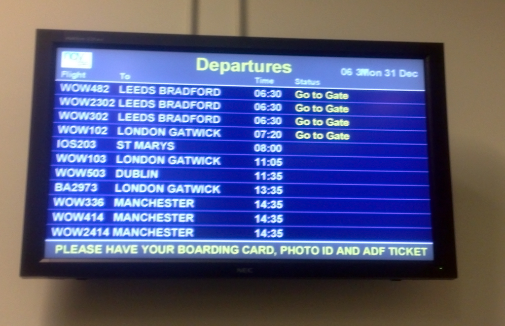 NQY departures board showing just a few of the many services from the airport as of 31st December 2007.